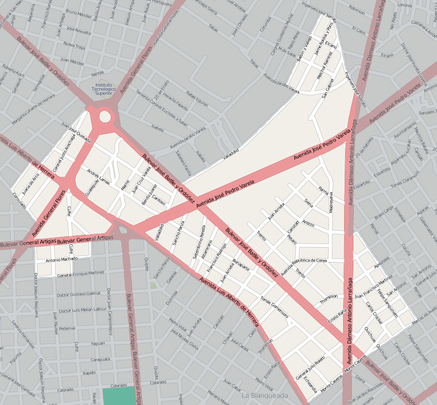 Street map of Mercado - Modelo Bolívar, Montevideo, exported from OpenStreetMap. I added shading to delimit the barrio. This map may be incomplete, and may contain errors. Don't rely solely on it for navigation.